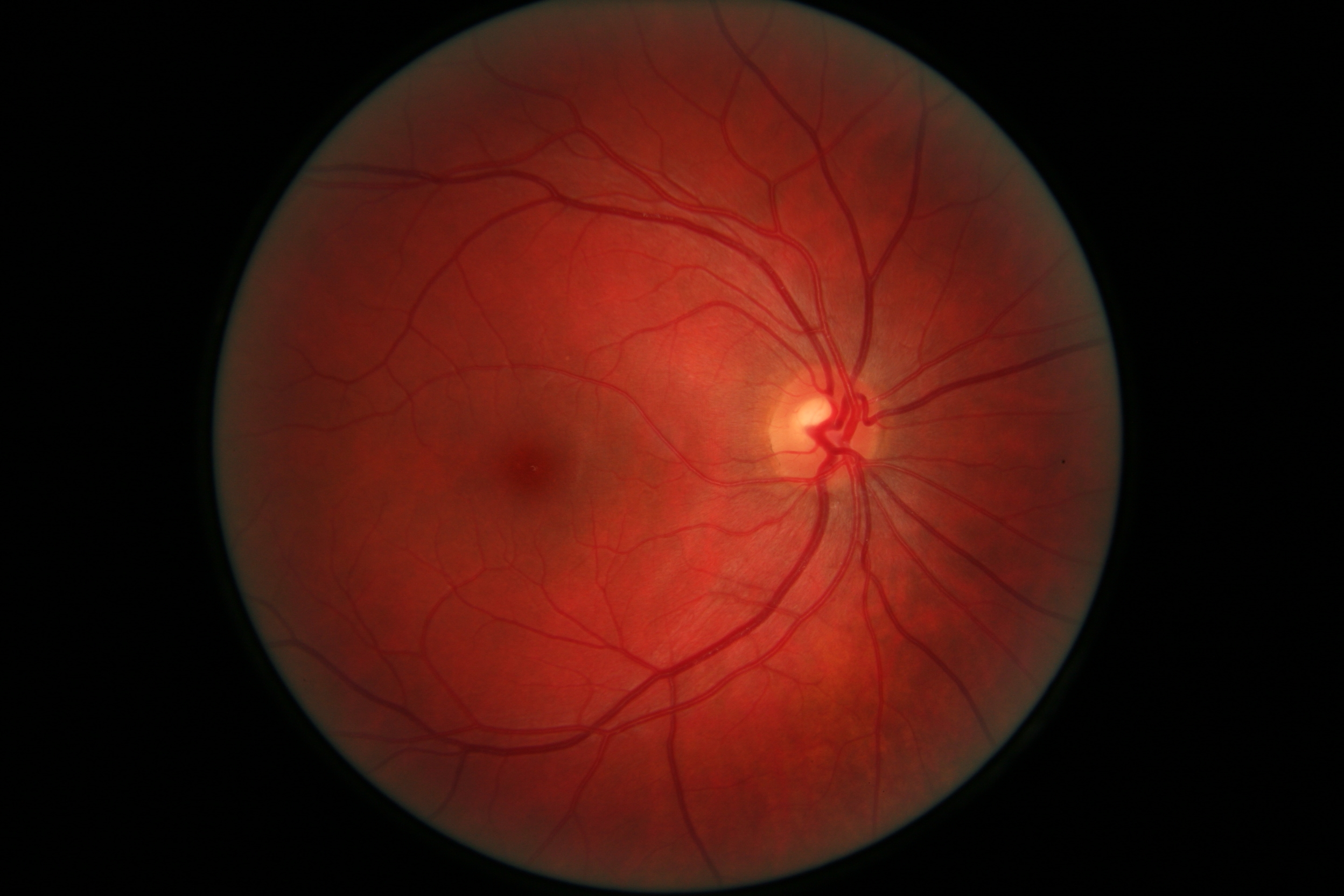 ?and the left